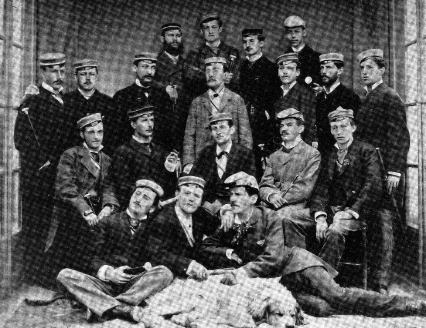 Photography of the Austrian Corpsstudents participating at the constituting congress in Melk